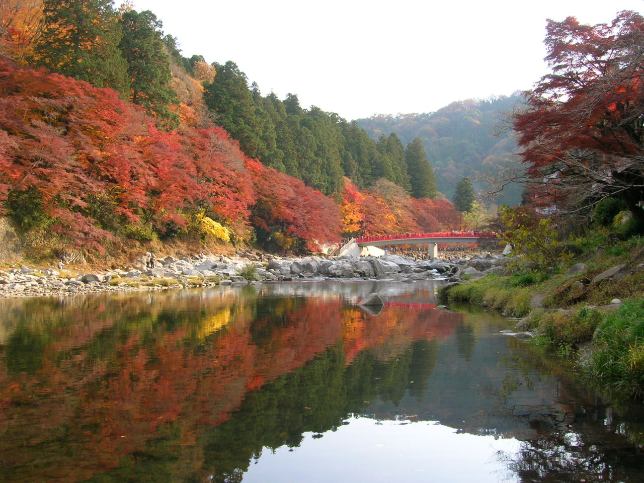 Kourankei, Mt.Iimori, Tomoe river, and Taigetsukyo bridge. Loc: Asuke, Toyota city, Aichi Prefecture, Japan. 香嵐渓（飯盛山の麓を流れる巴川、奥に見えるのは待月橋。） 撮影場所 愛知県豊田市足助町